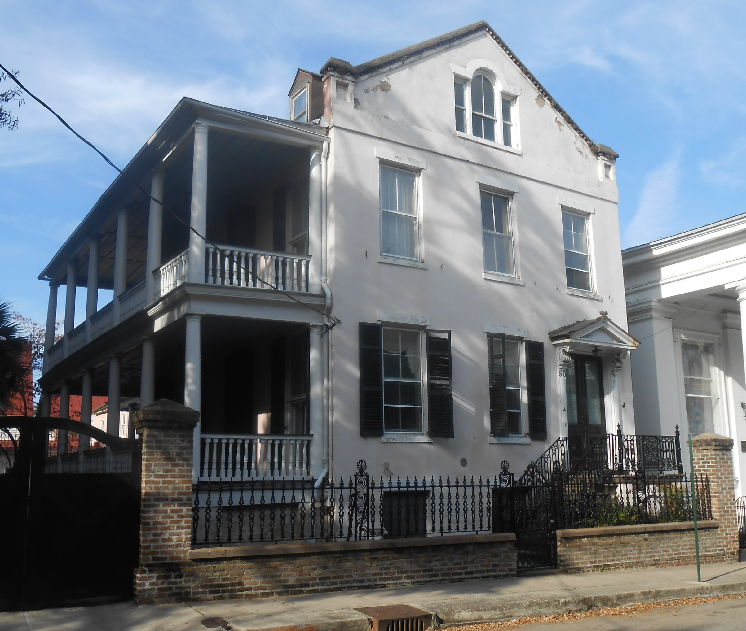 52 Hasell St., Charleston, South Carolina